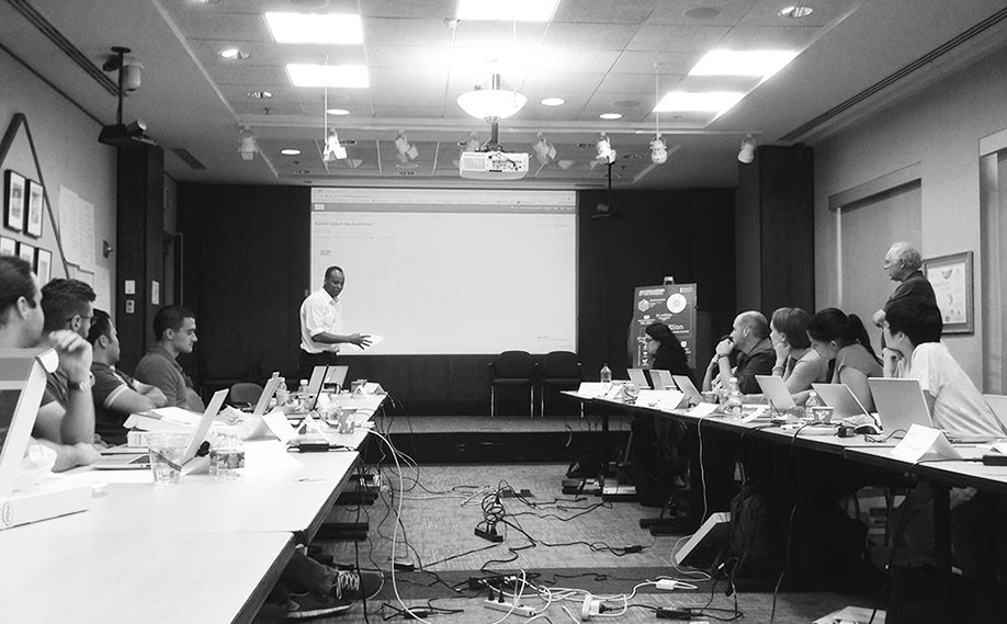 Photograph of Adé Olufeko lecturing on the use of wireframes for research to selected PhDs and postdocs at the American Chemical Society during its summer institute in 2015.